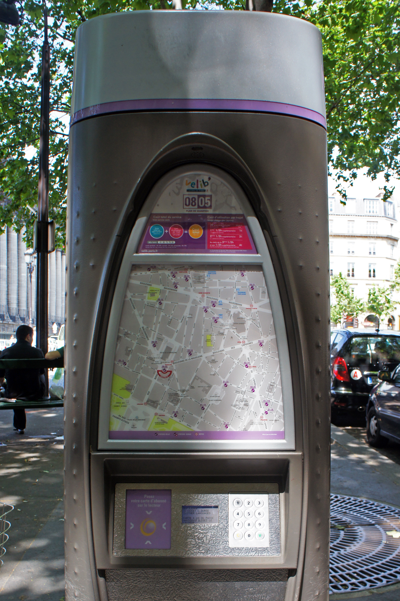 Automated Vélib’ bike sharing pay station. Paris, France.